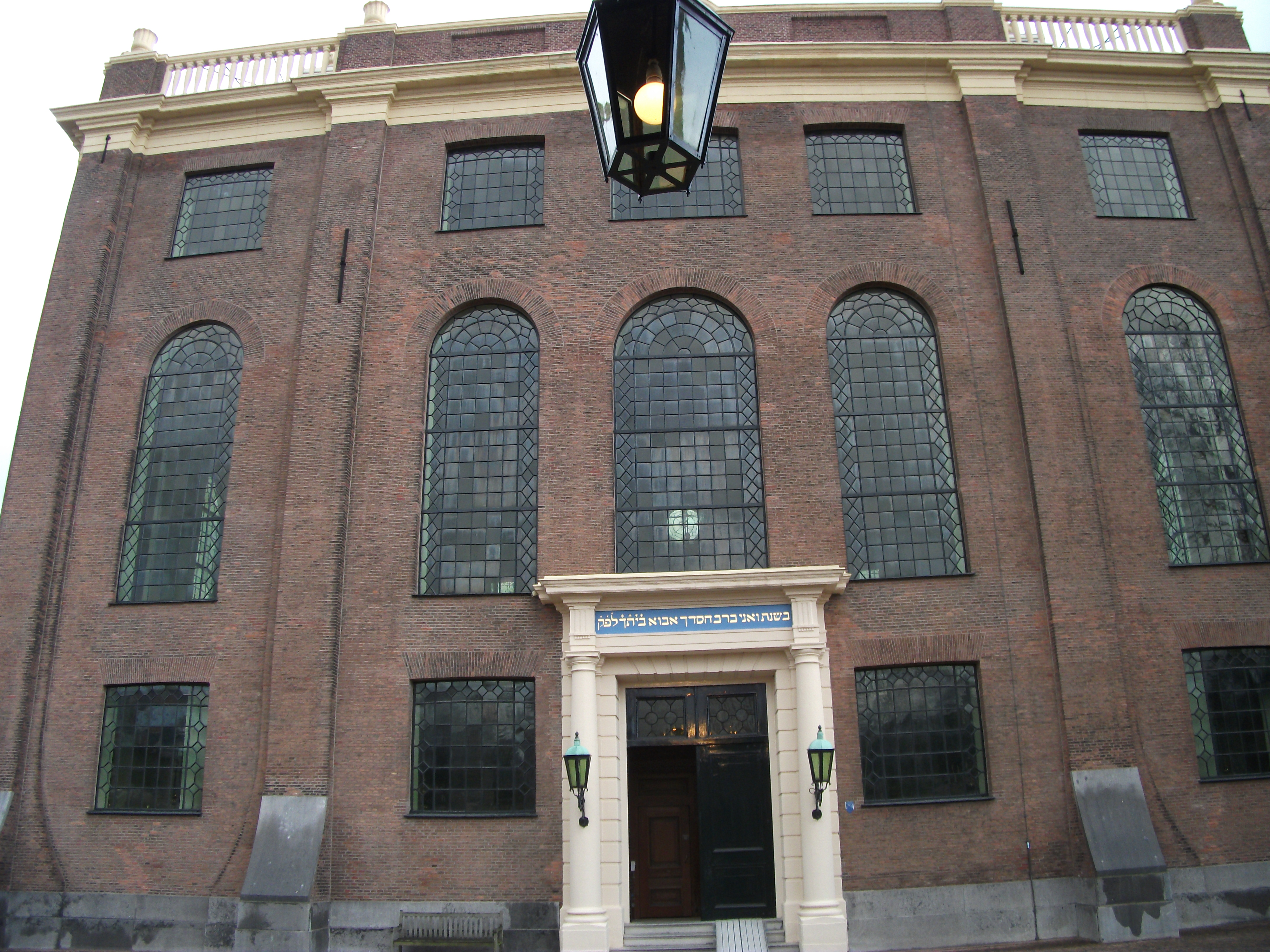 Portuguese Synagogue in Amsterdam, Netherlands.